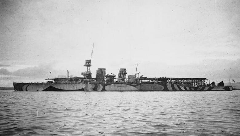 HMS VINDICTIVE : CAVENDISH class cruiser converted to an aircraft carrier with six seaplanes.